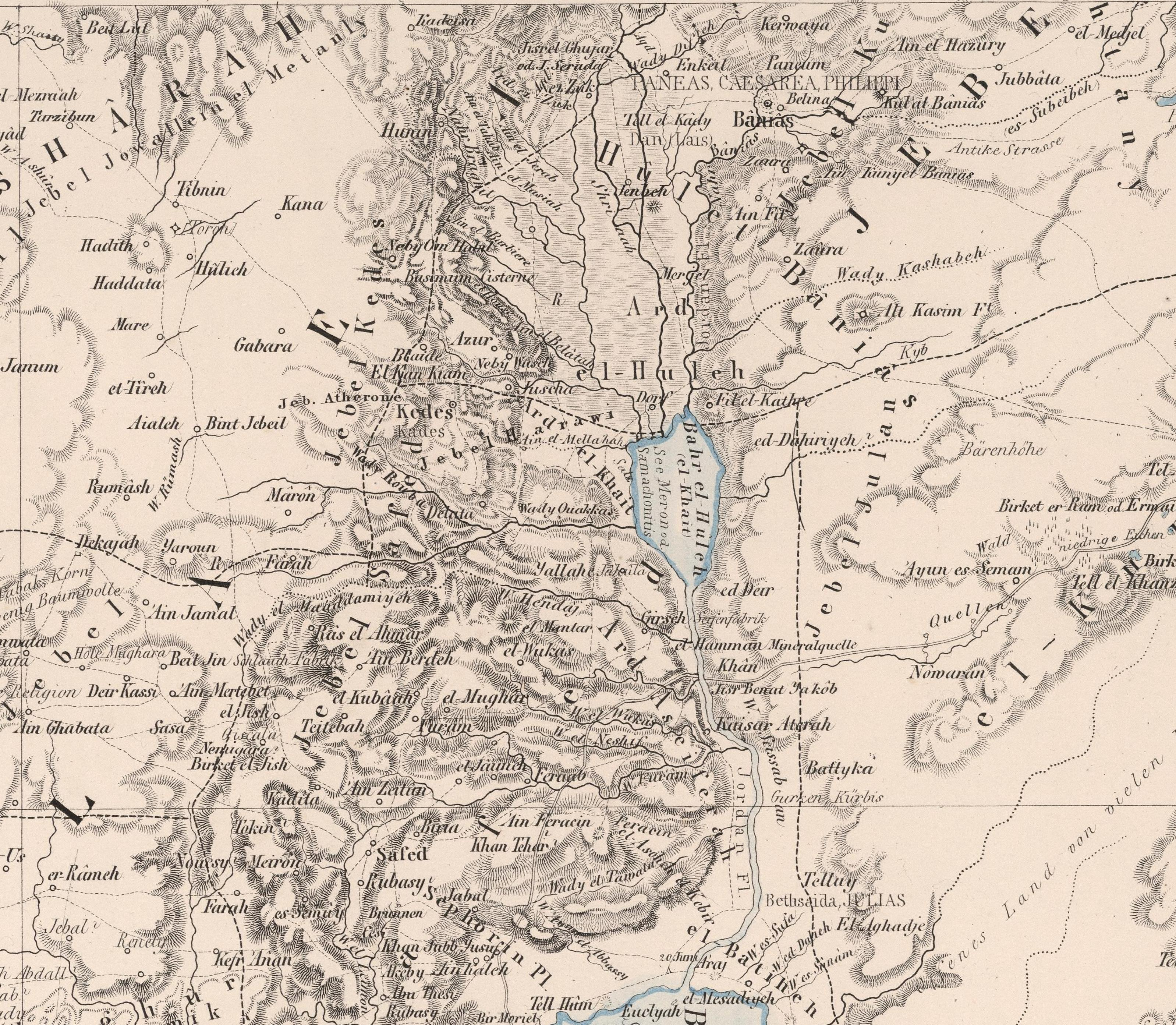 Sect. III. Tiberias. Atlas of Palestine and the Sinai Peninsula.